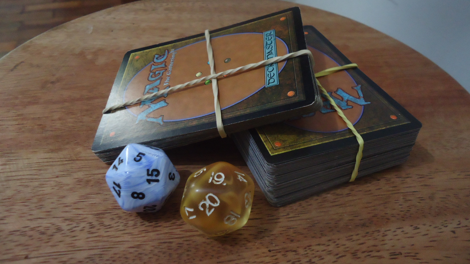 Cards and dice (used to mark life points) from the Magic: The Gathering trading card game.